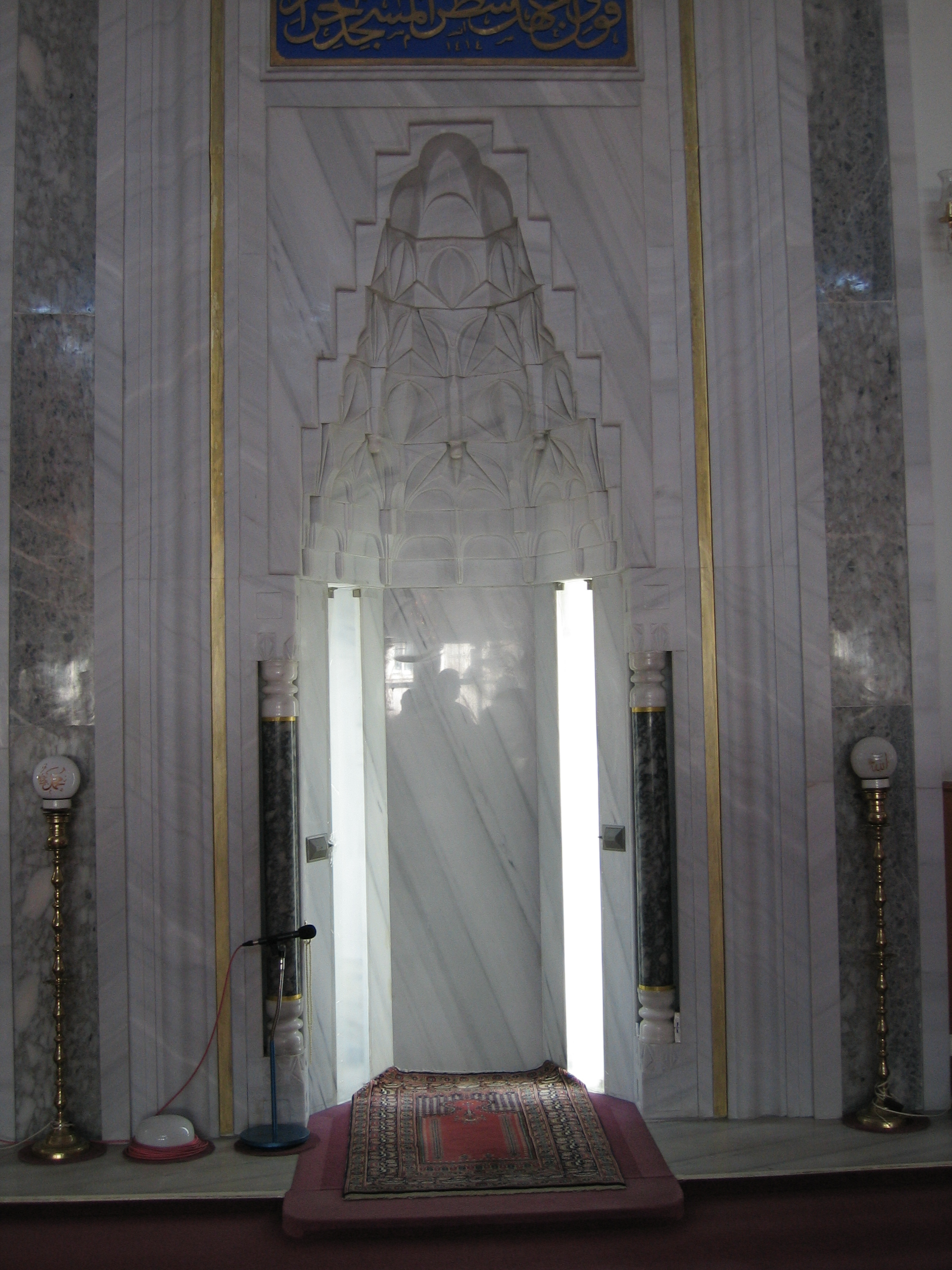 Yavuz Sultan Selim Mosque, Mannheim, praying corner (Mihrab), direction South-East